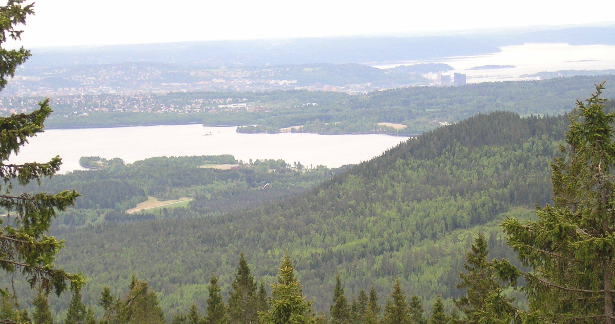 View from Mellomkollen